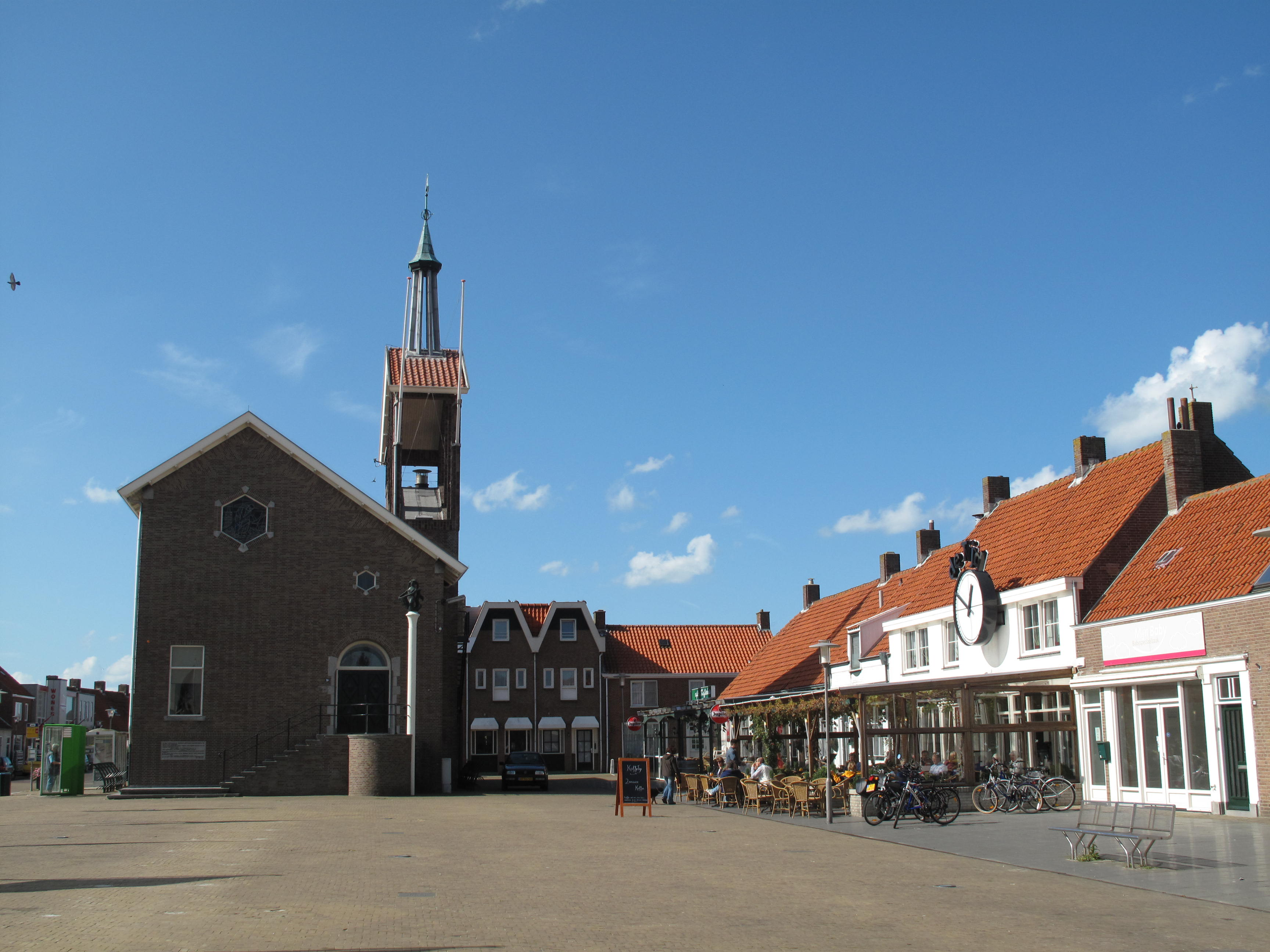 Westkapelle, central square